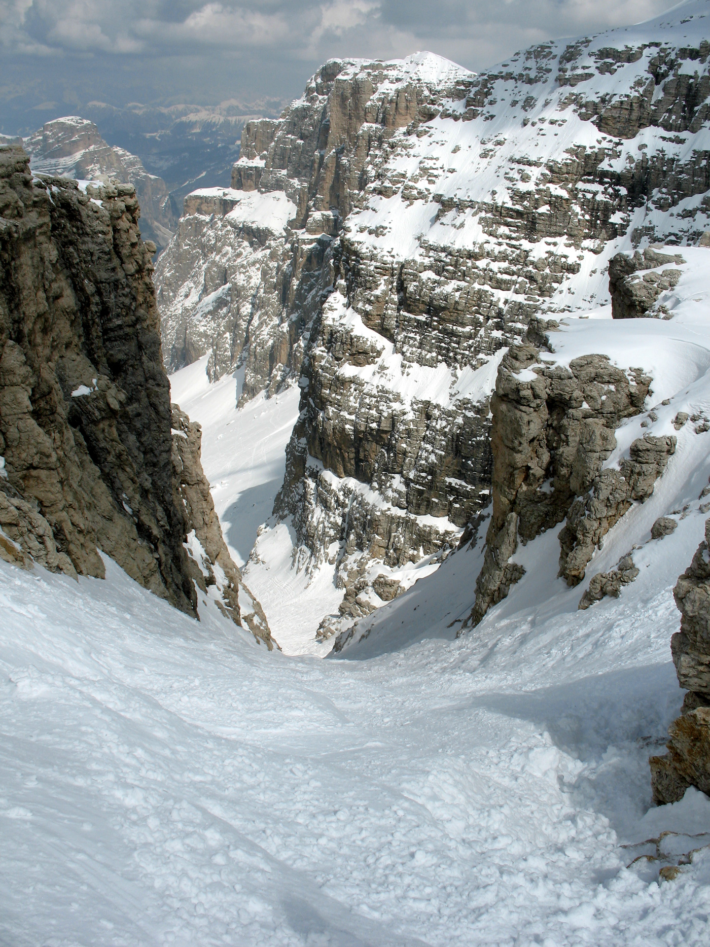 Mittagstal (Ladin: Val de Mesdì) on the Sella in the Dolomites, South Tyrol. Start on the top